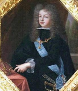 Portrait of Philip, Duke of Anjou (1683-1746)